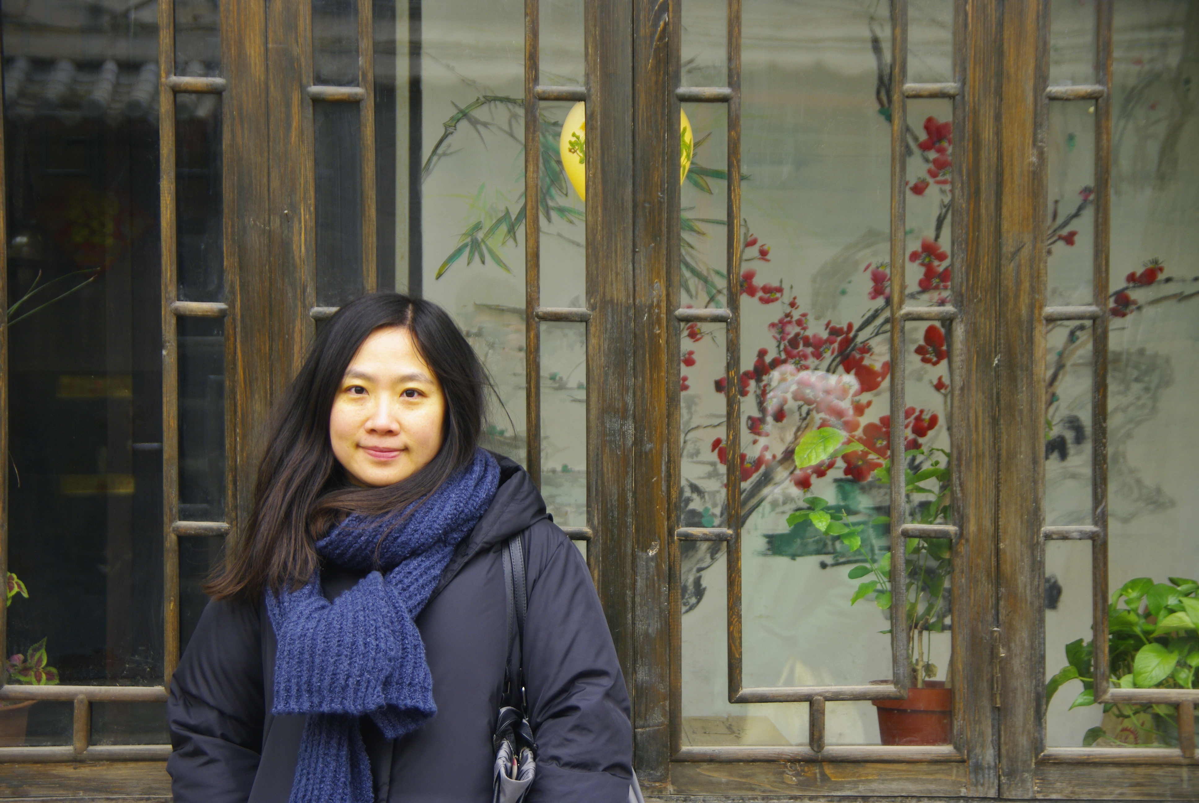 Aram Hur in China